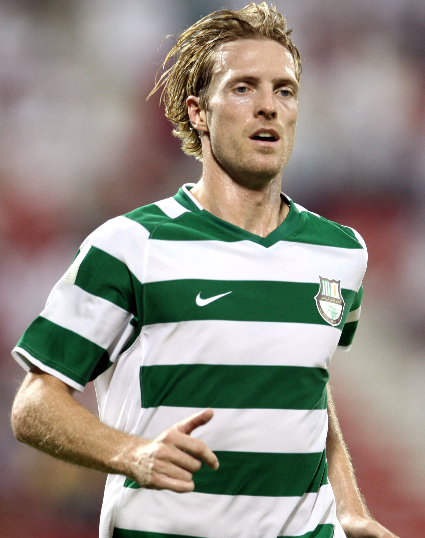 Al Ahli's Christian Wilhelmsson in action during their Qatar Stars League match against Lekhwiya.